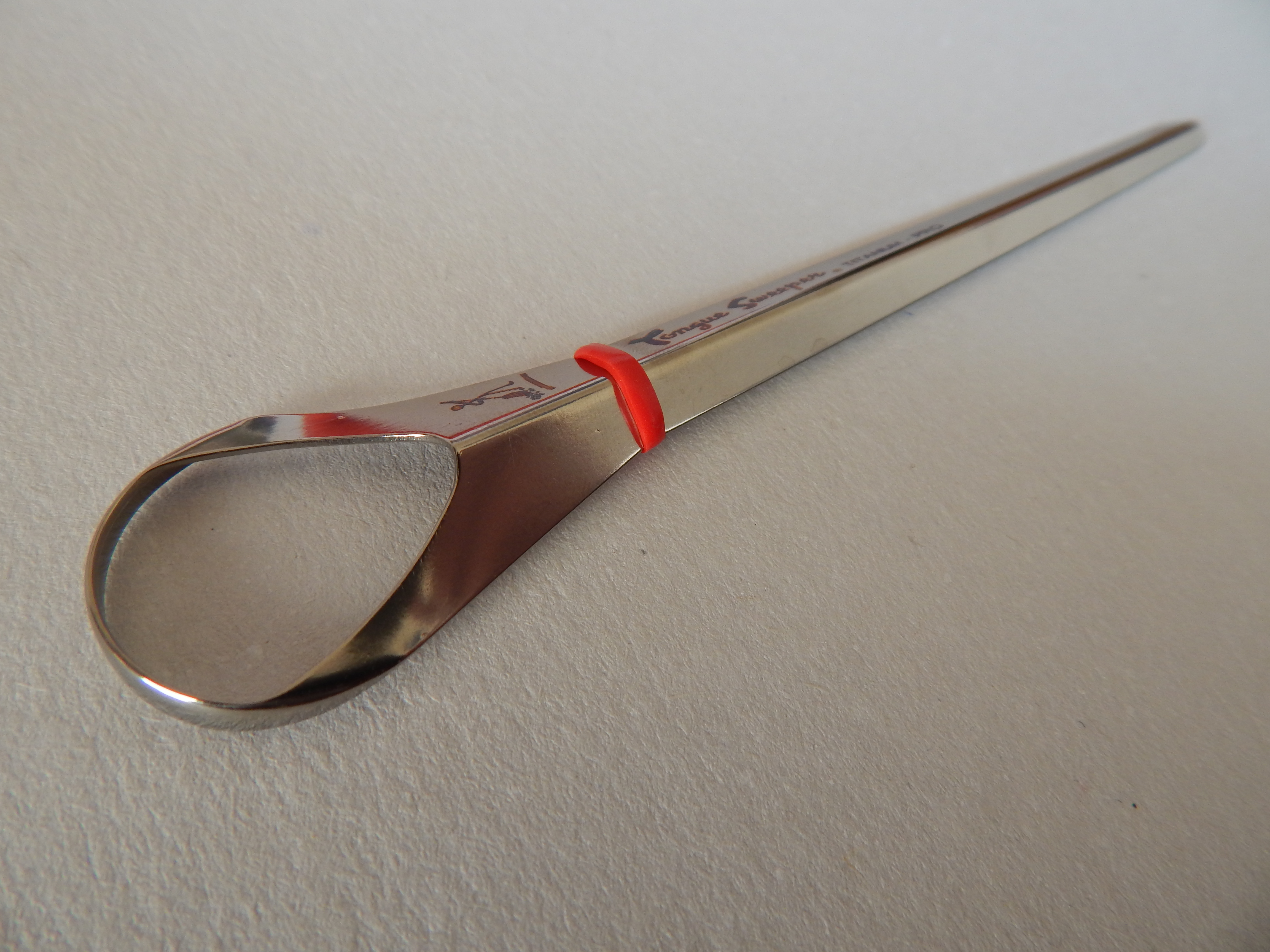 Tongue cleaner “Tongue Sweeper Titanium”.